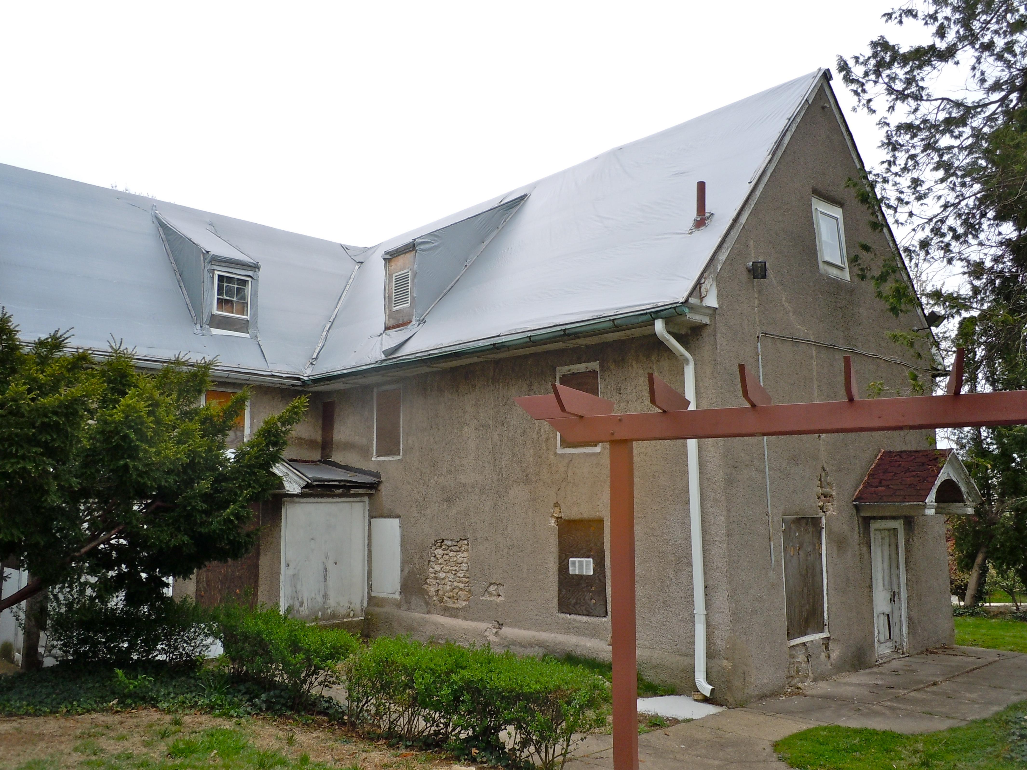 Sellers Hall, oldest permanent house in Upper Darby, built 1680s. PHMC state historical marker dedicated Friday, October 25, 1985. On N. side Walnut St. between Copley and Glendale Rds., Upper Darby 39.9569°N 75.2615°W Historical topics: Buildings, Early Settlement, Medicine & Science, Professions & Vocations Listed on April 18, 2018 in the National Register of Historic Places